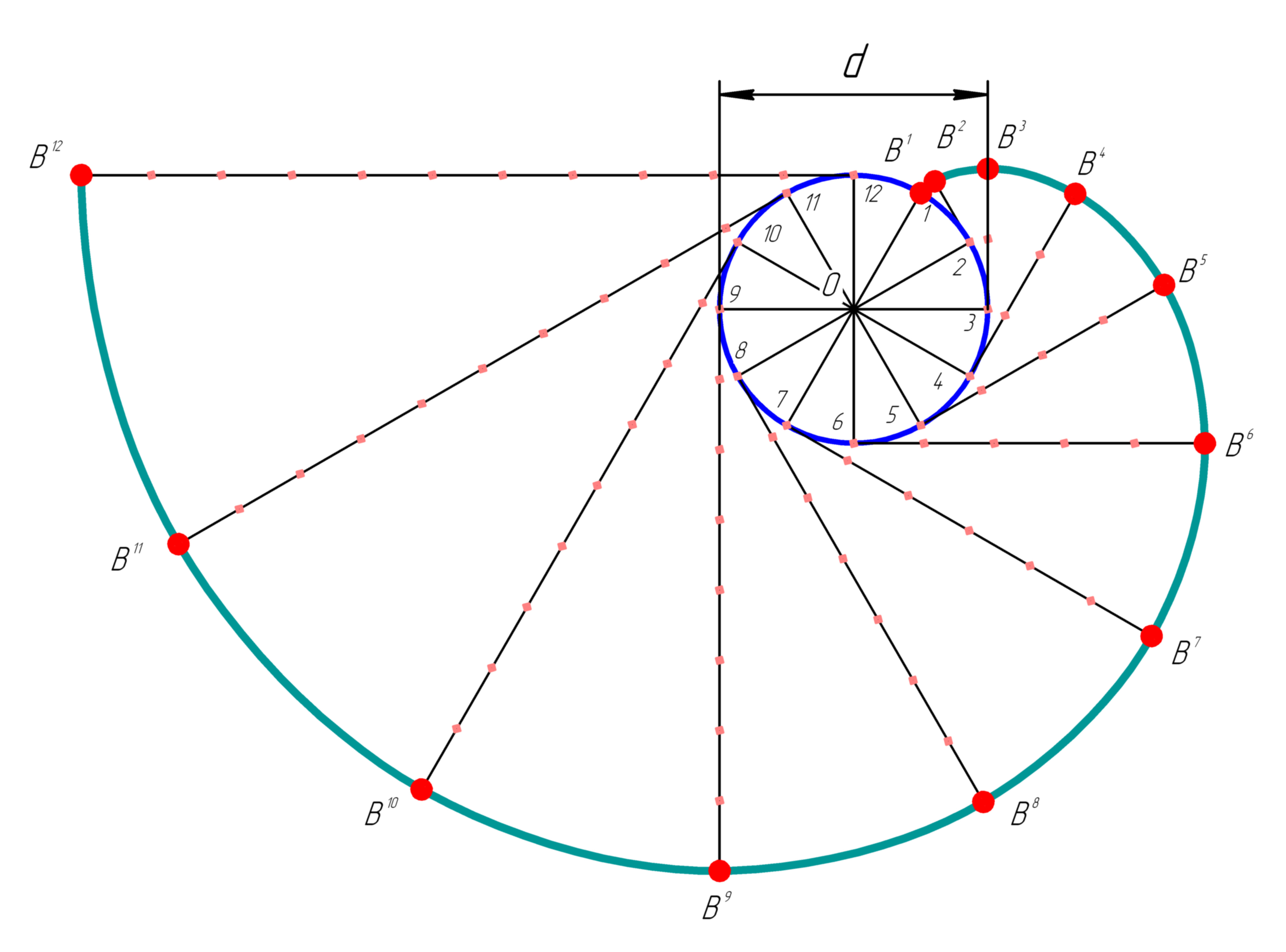 Evolvent of circle